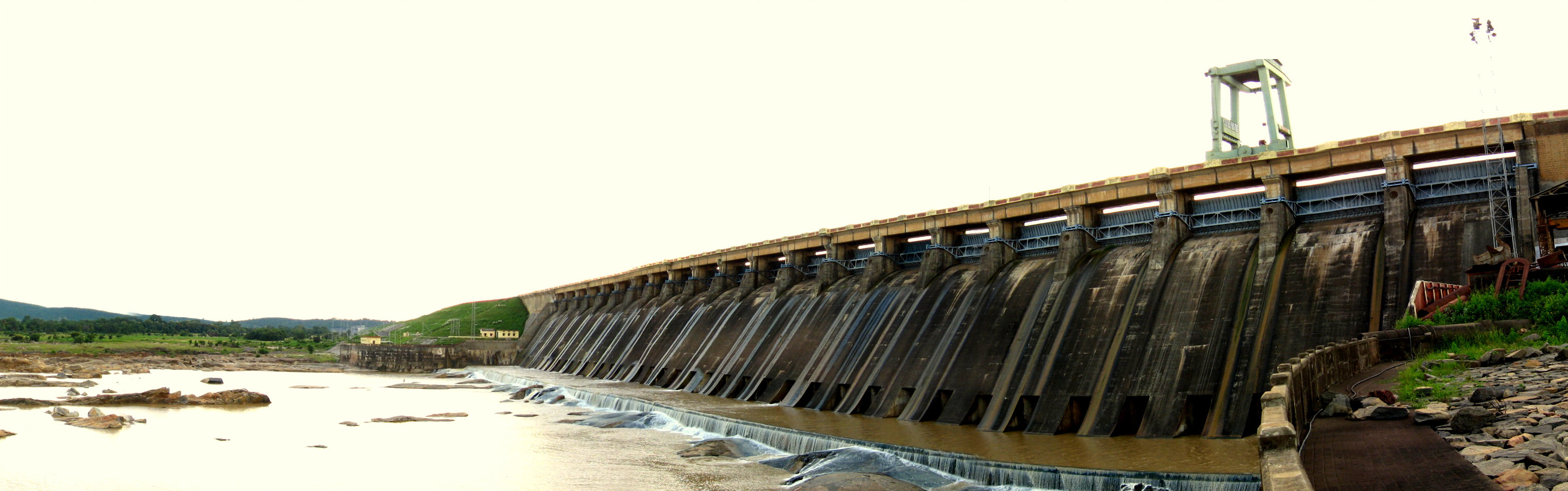 Hirakud Dam, Left Dykes